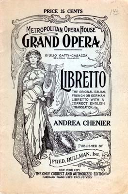 Cover of the libretto to Andrea Chenier